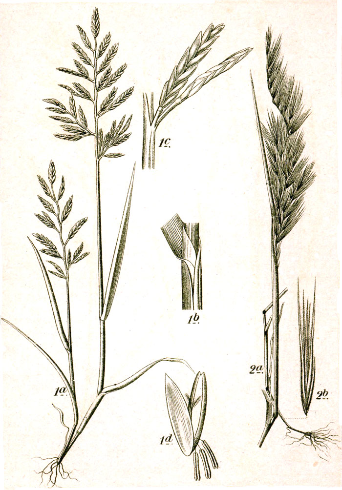 1: Catapodium rigidum (L.) C.E.Hubb. subsp. rigidum, syn. Desmazeria rigida (L.) Tutin, Festuca rigida (L.) Kunth 2. Vulpia myuros (L.) C.C.Gmel. var. myuros, syn. Festuca myuros L. Original Caption 1. Starrer Schwingel, Festuca rigida Kunth. 2. Kamm-Schwingel, F. myuros Ehrh.